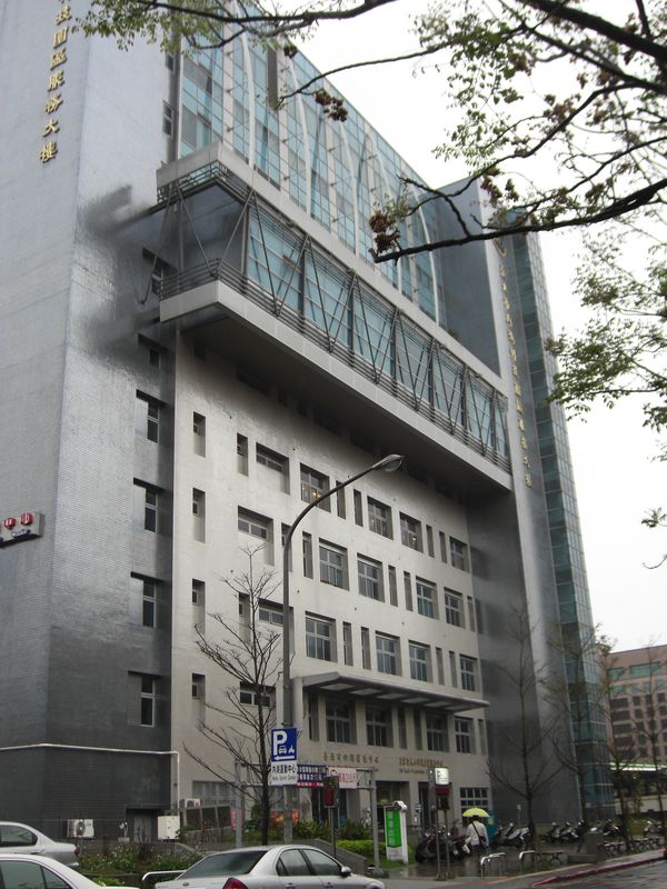 Neihu Technology Park Service Building, Taipei City.中文（台灣）: 臺北市內湖科技園區服務大樓，位於臺北市內湖區洲子街12號。